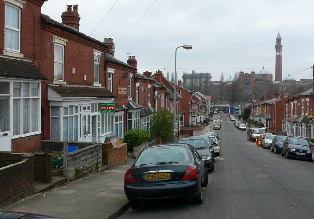 Alton Road, Bournbrook, view north along this street of Victorian terraced houses towards Birmingham University which can be seen in the distance. Nearly all the houses are occupied by students.